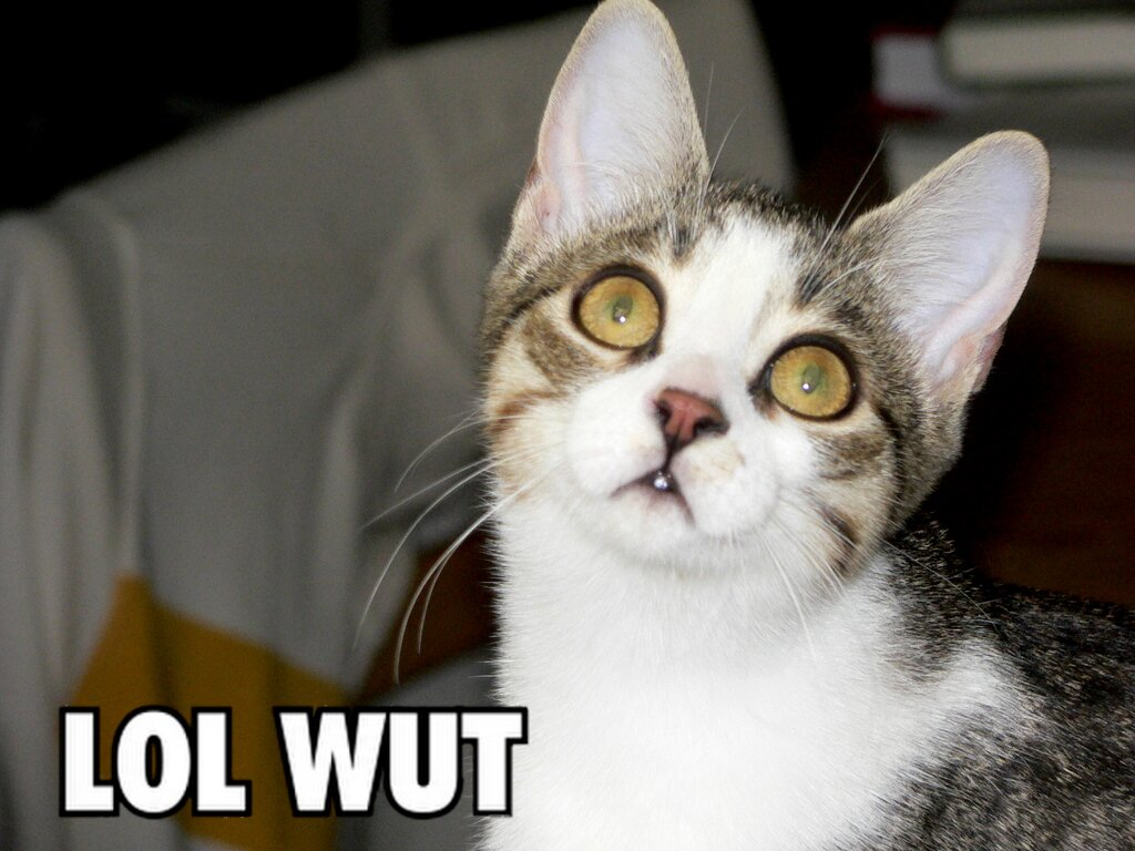 My sincere reaction to Krimpet's Image:LOL WUT IRL.jpg. Original flickr description: Read this for the back story: Text added using roflbot